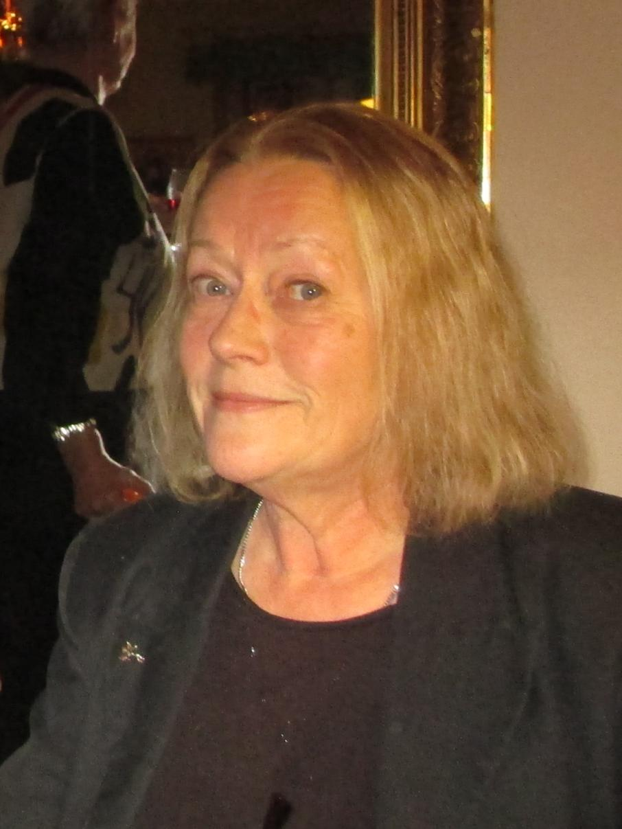 Swedish actress Barbro ChristensonPlace: Pontén residence, Götgatan, Stockholm, Sweden